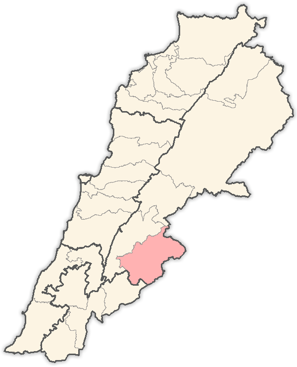 Map of districts in Lebanon, highlighting the Rashaya District